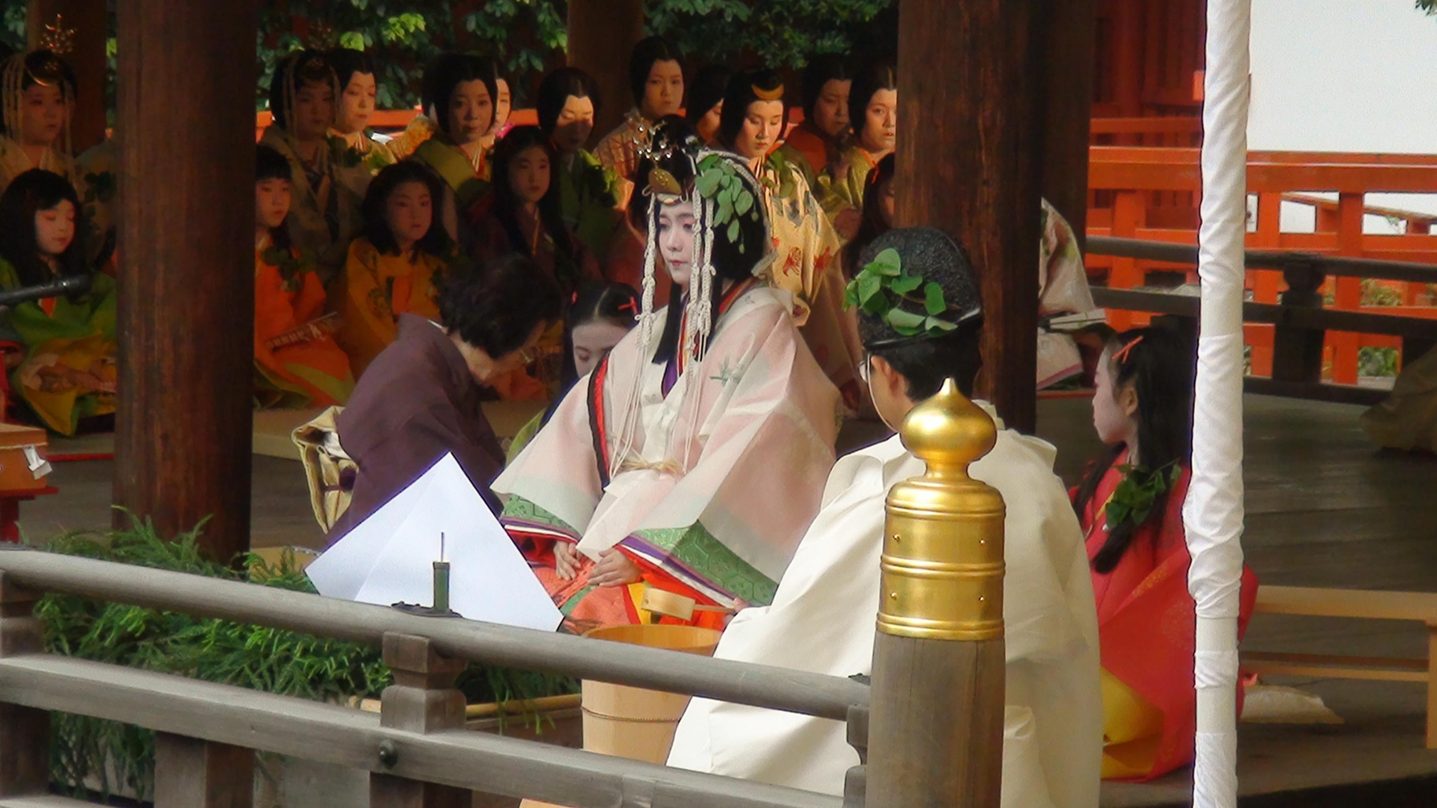 Saio Dai of Aoi Matsuri Festival doing "Misogi no gi" at Shimogamo Jinja